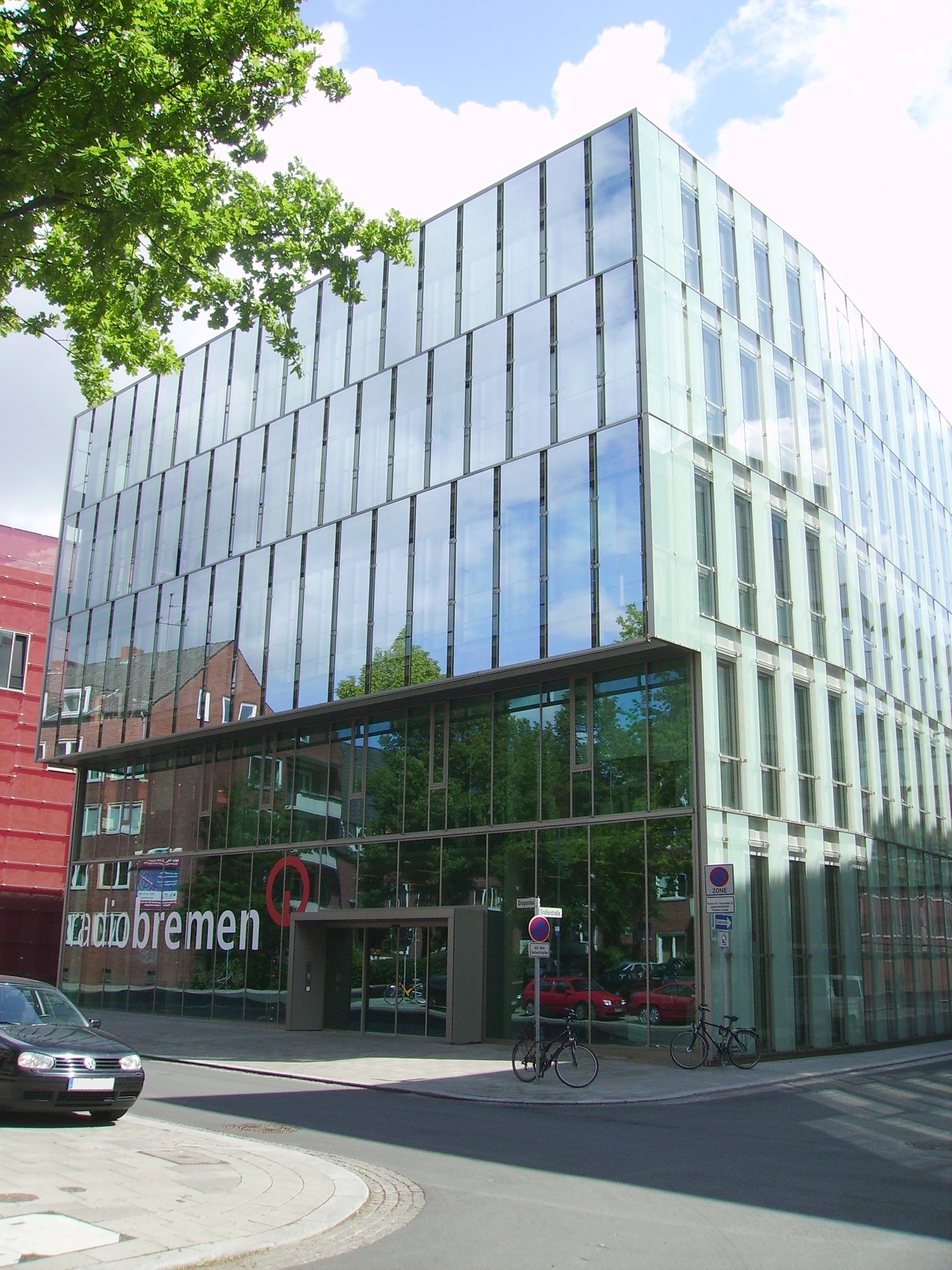 Building of Radio Bremen, front view